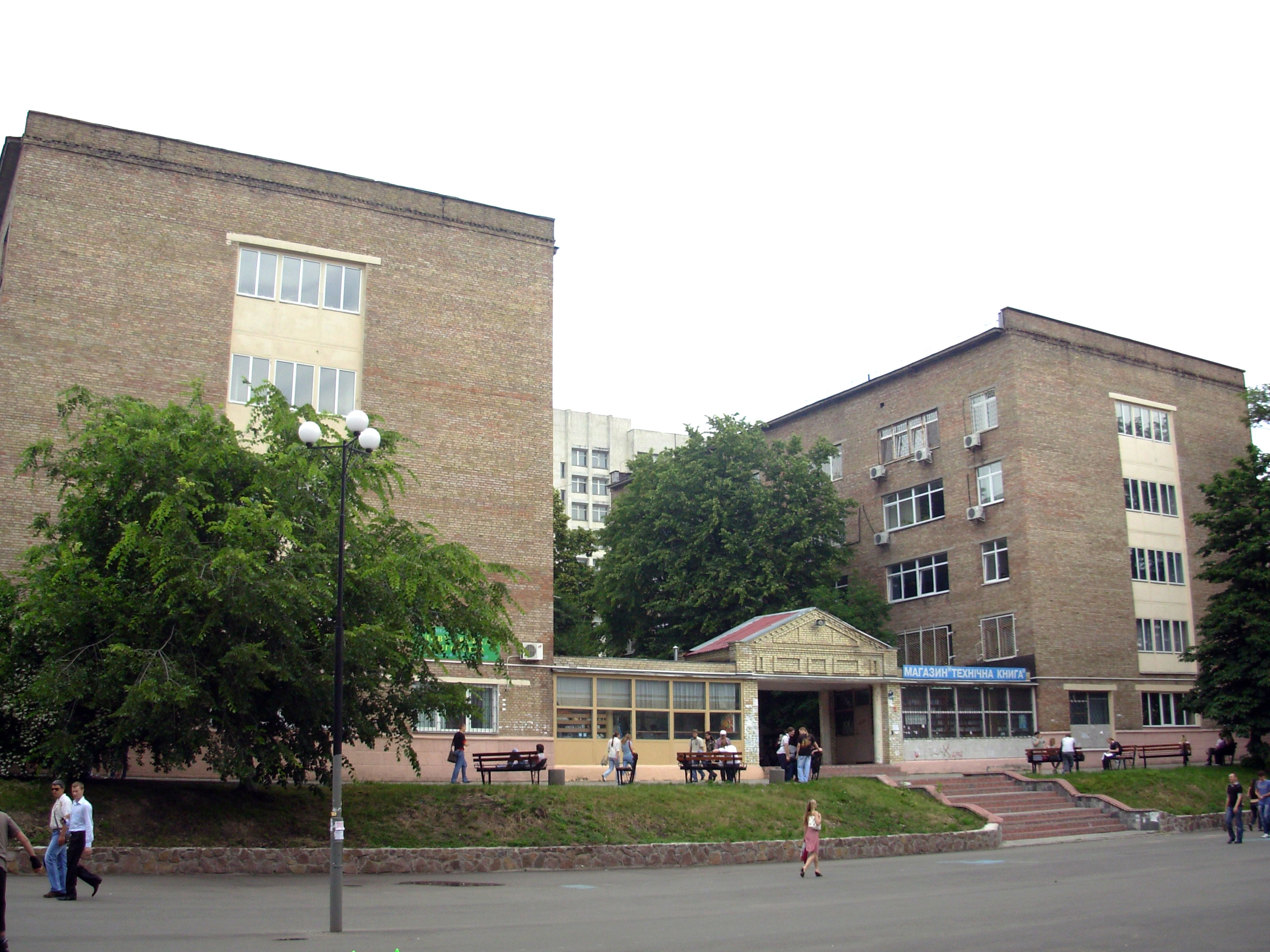 Buildings #14 and 15 of Kyiv Polytechnic Institute